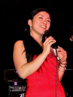 Taeko Performance